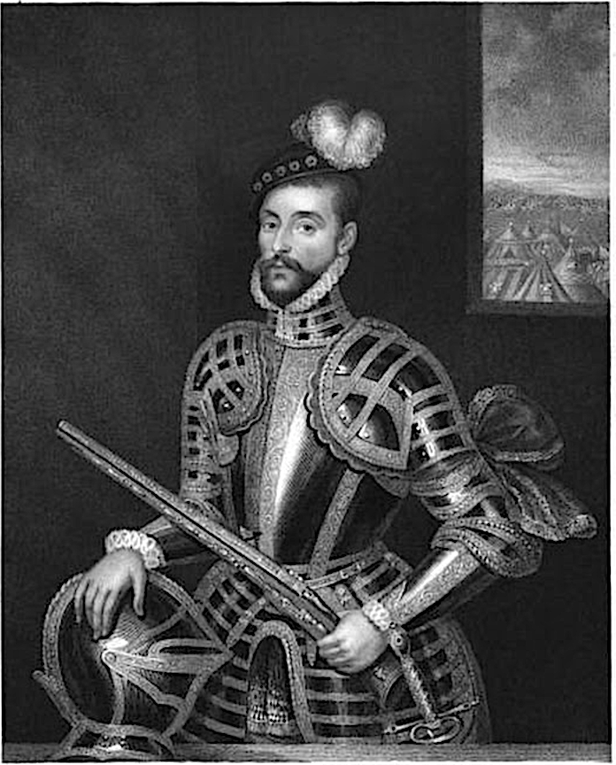 Engraved plate